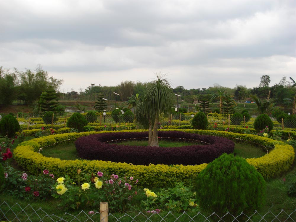 photo